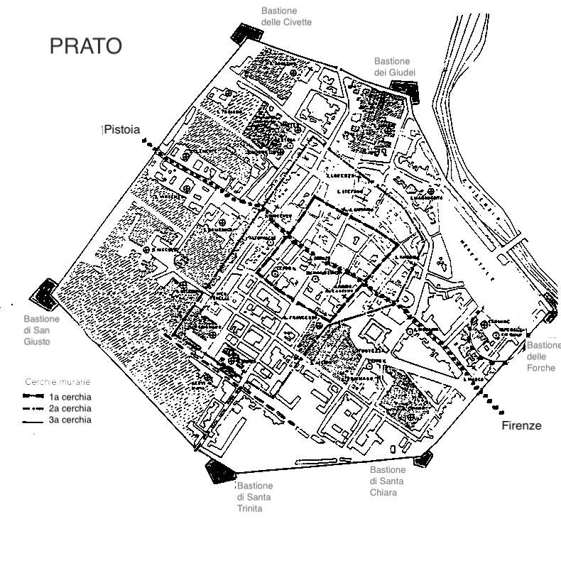 prato